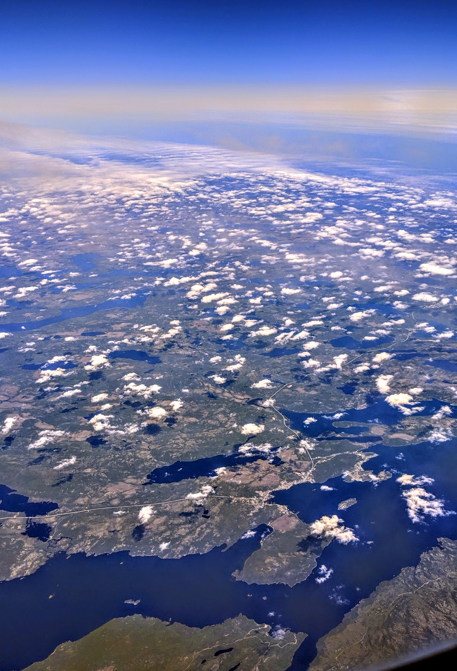 Hare Bay and vicinity aerial view